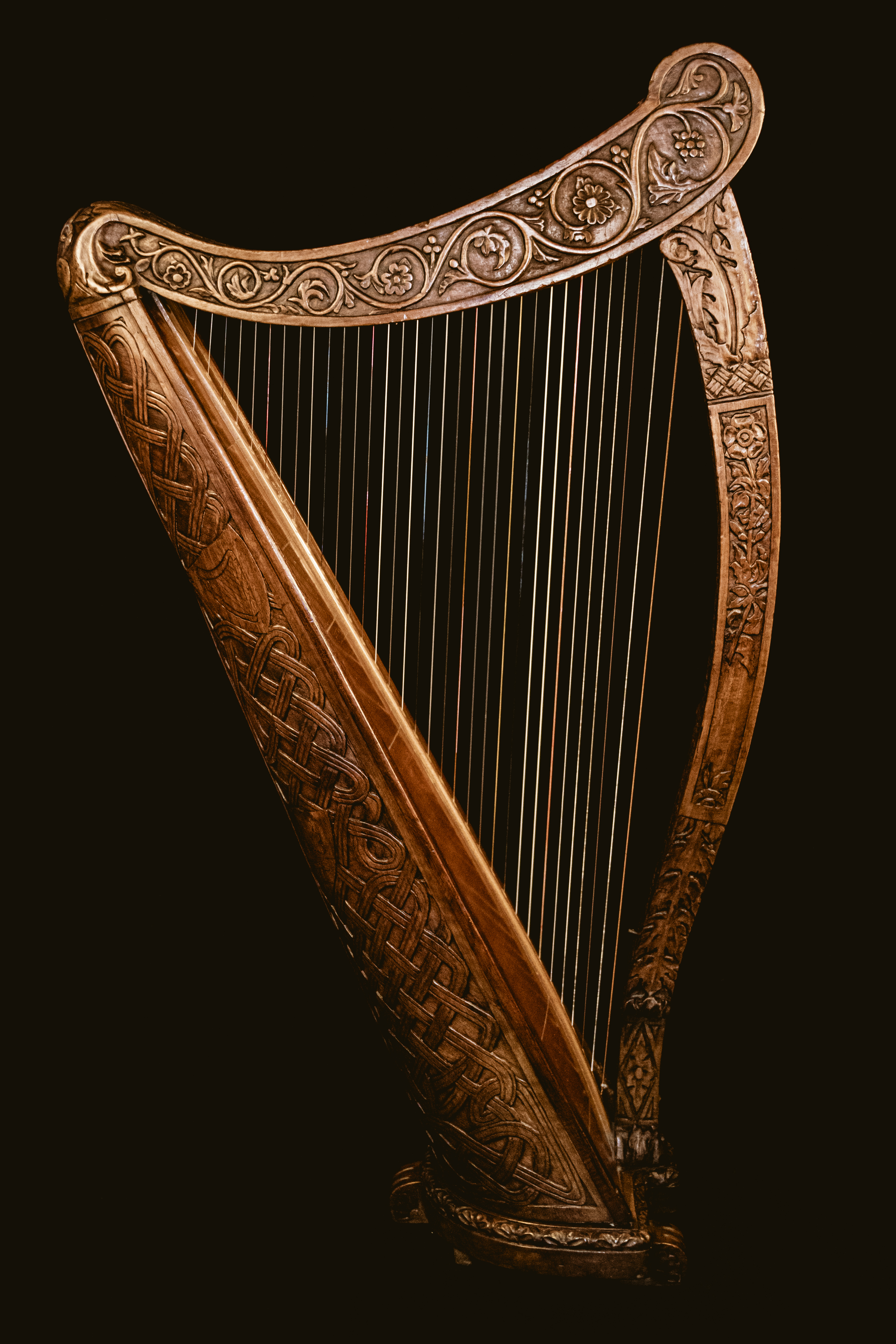 The "Telenn Gentañ", celtic harp made in 1953 by Jord Cochevelou the father of Alan Stivell. It is the first new Breton harp that marked the renewal of the instrument in Brittany (reawakening by Alan Stivell) and in the world.